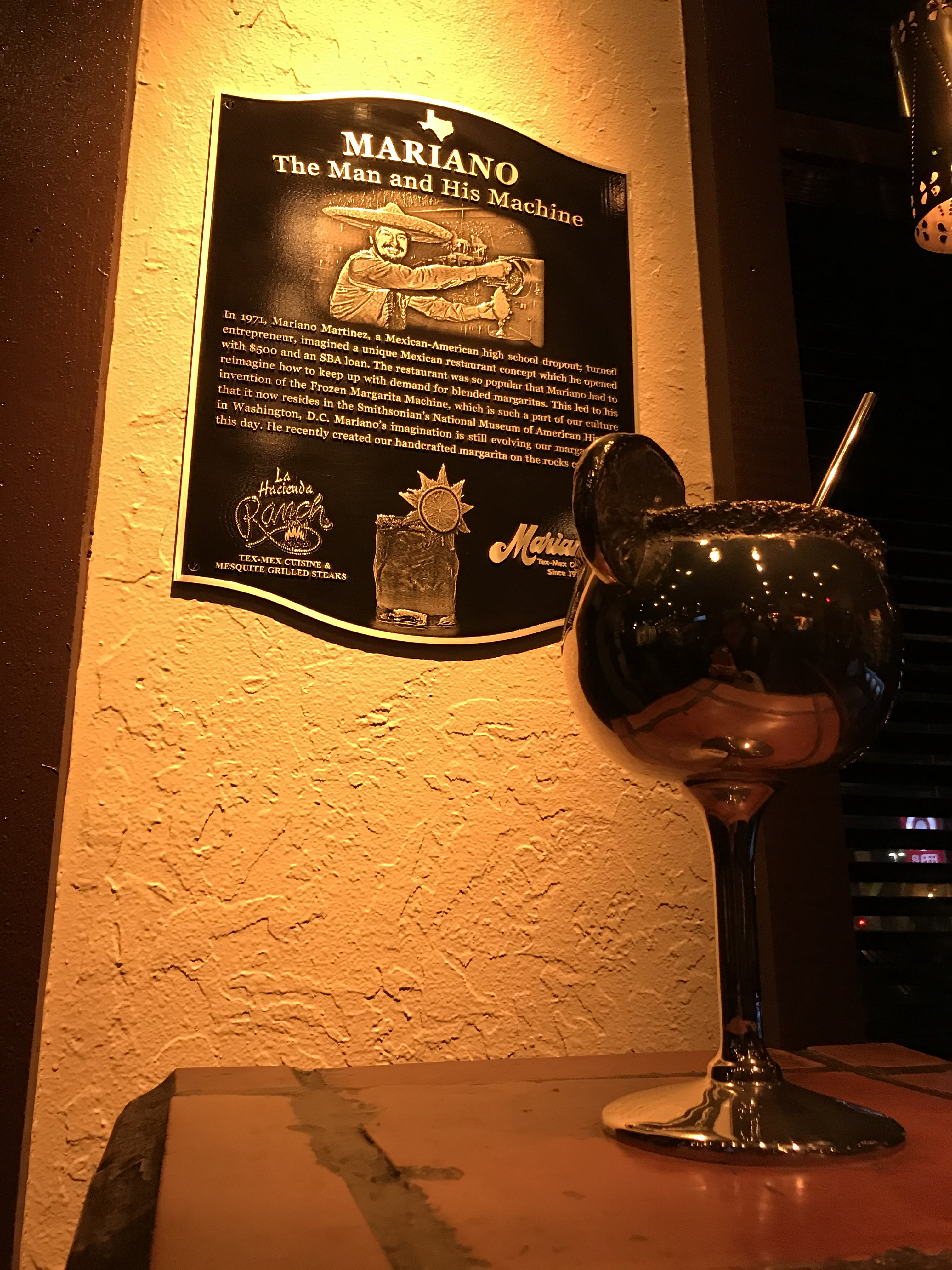 Mariano Martinez - Inventor of Margarita Machine